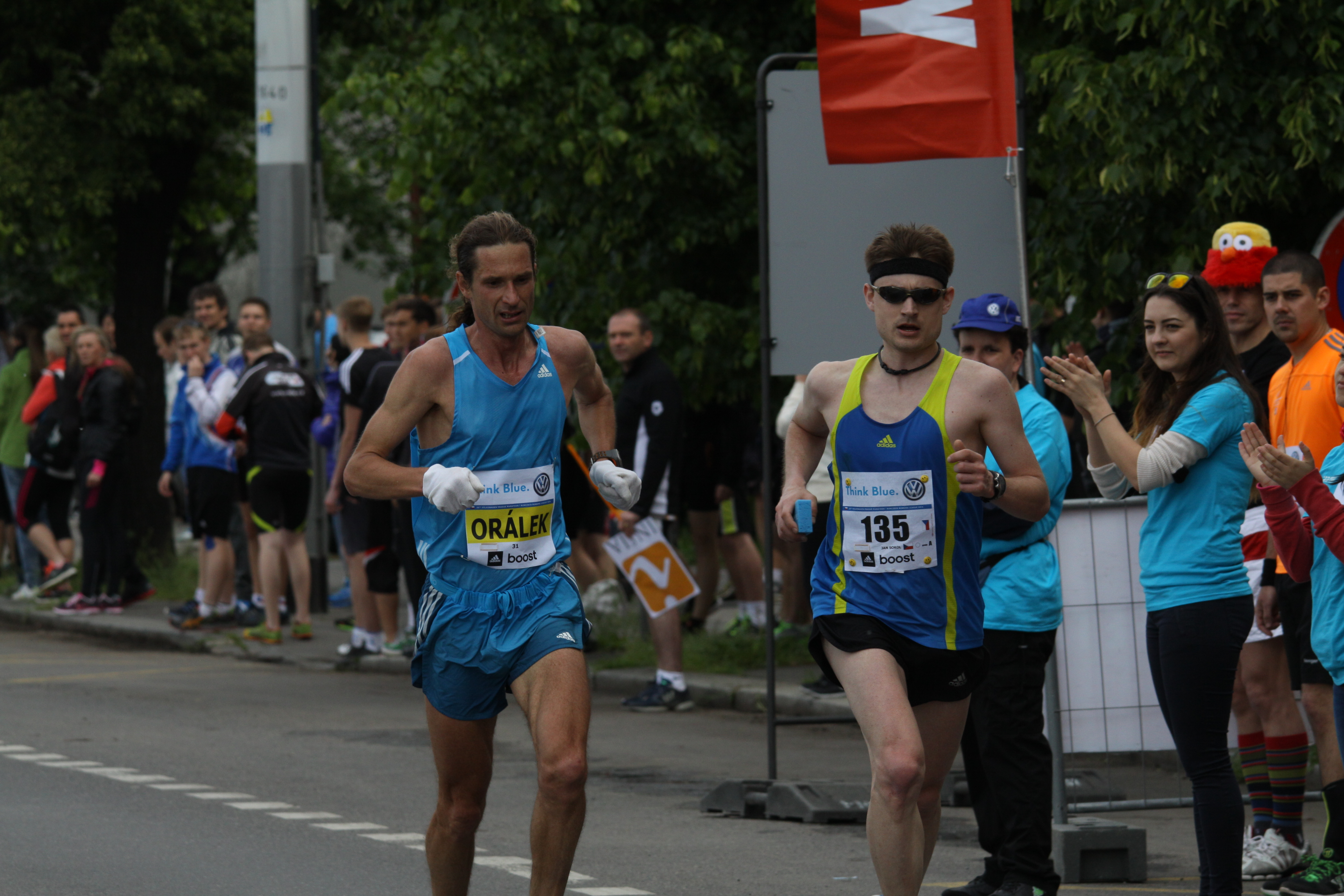 Daniel Orálek. Prague International Marathon in 2014, Czech Republic